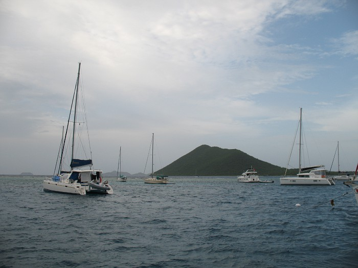 Sailboats in the British Virgin Islands